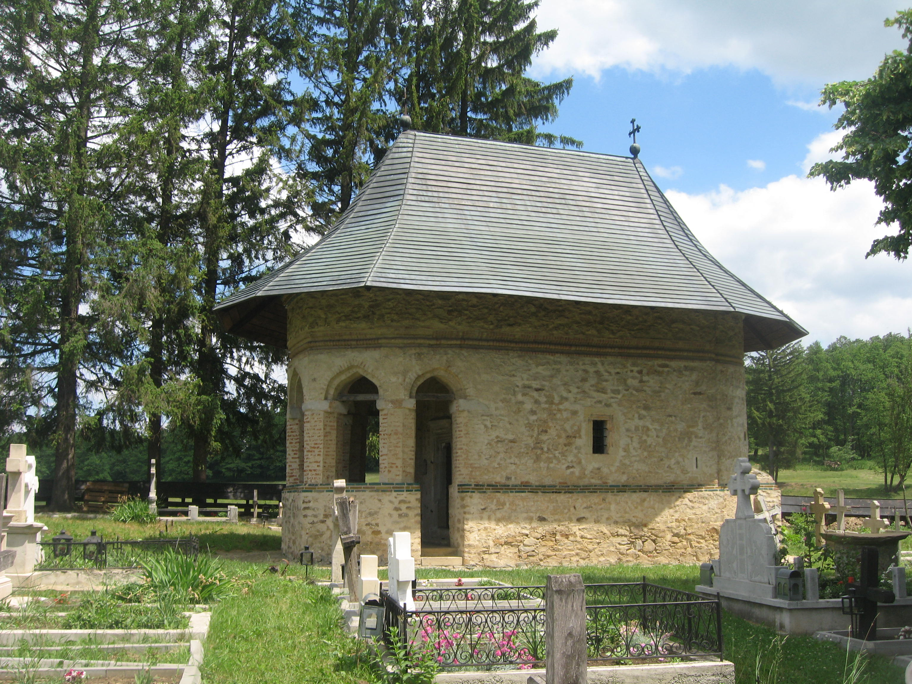 Dragomirna Monastery